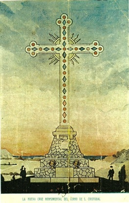 Design Cross of Cerro San Cristobal Monumental, by Oscar Valderrama Zagazeta